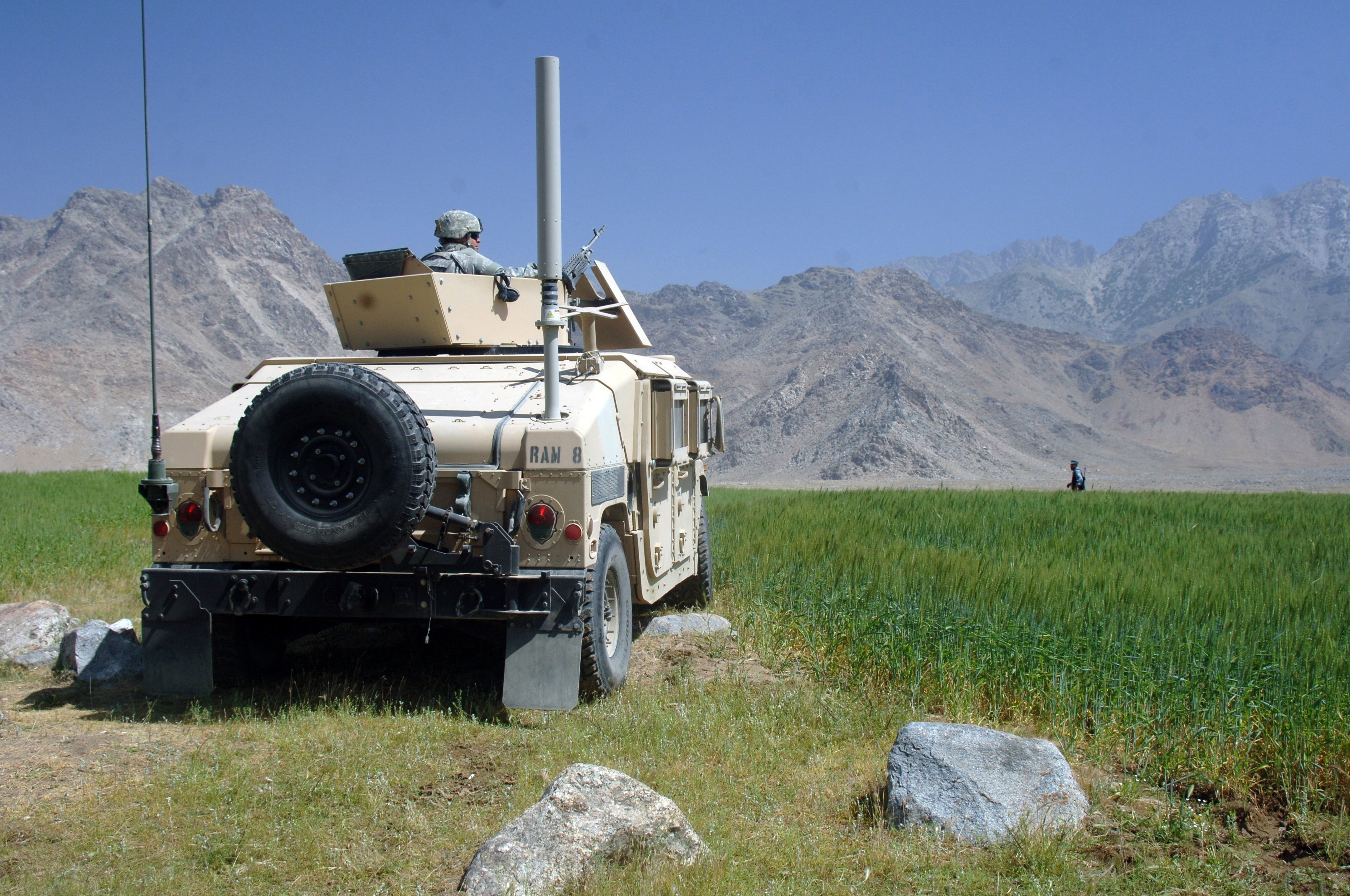 A Soldier pulls security at a vehicle control point in the village of Kapisa, Afghanistan.